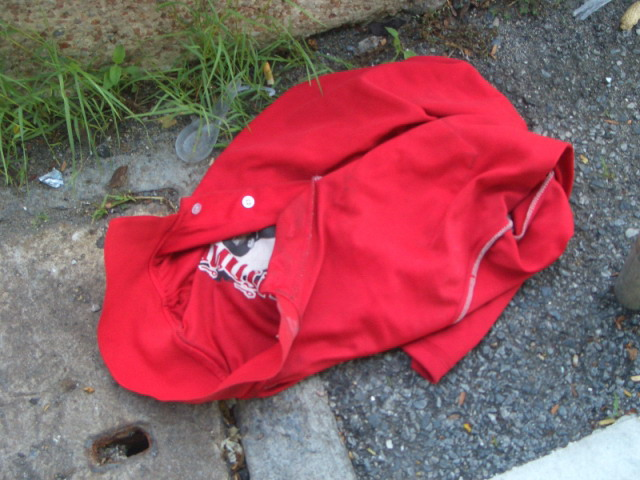 Left behind T-shirts; 14 April 2009 (Bangkok, Thailand)